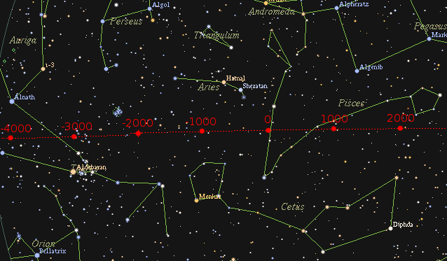 Path of the point of vernal equinox along the ecliptic over a 6000 year period. The tradition of take the point of vernal equinox as defining the "sign of Aries" dates to Babylonian astrology, ca. 600 BC. It is apparent in this image that the main star of Aries, Hamal, was closest to the point of vernal equinox in ca. the 7th century BC.